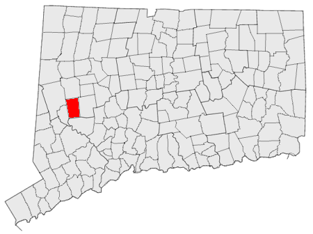 Locator map for Roxbury, Connecticut